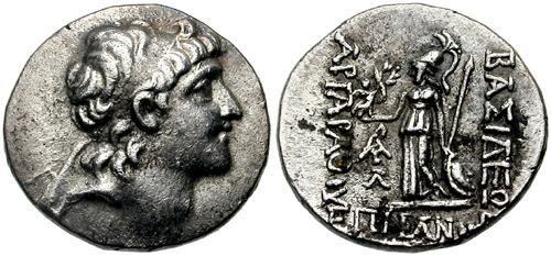 KINGS of CAPPADOCIA. Ariarathes VI. 130-116 BC. AR Drachm (18mm, 4.24 gm). Dated year 1=130/129 BC. Diademed head right Athena standing left, holding Nike and supporting shield and spear; two monograms left, date in exergue. Simonetta 7a. Toned, good VF, some reverse encrustation. From the Charles E. Weber Collection.